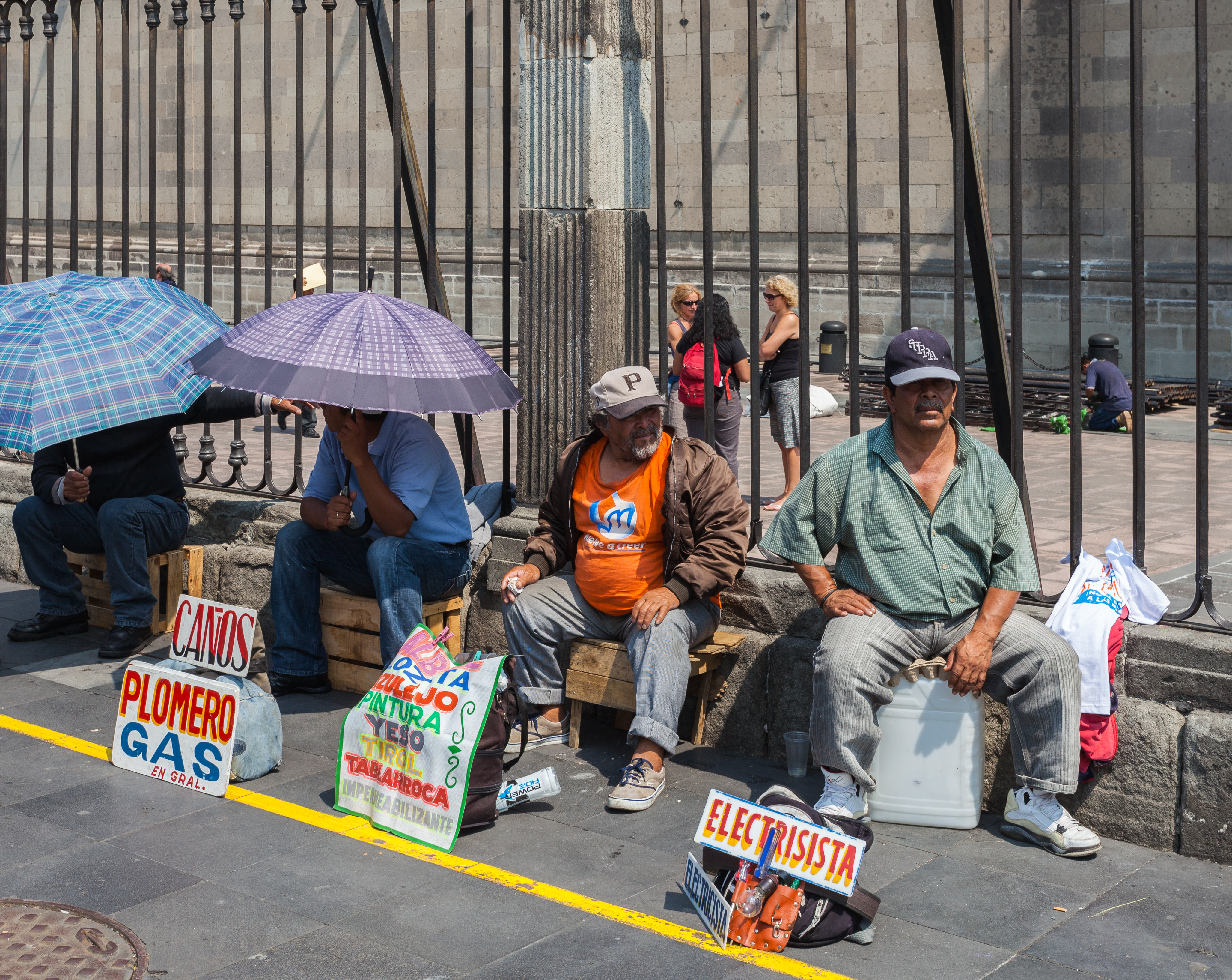 Sellers at the Metropolitan Cathedral, Mexico City, Mexico